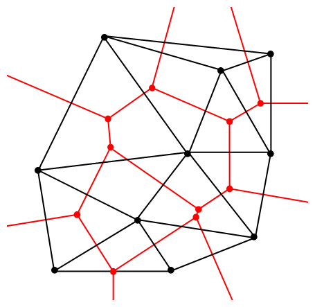 A Delaunay triangulation and its Voronoi diagram, based on Delaunay_circumcircles_centers.png.